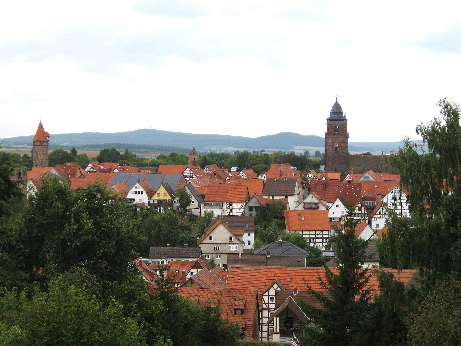 Germany / North Hesse / view to Grebenstein